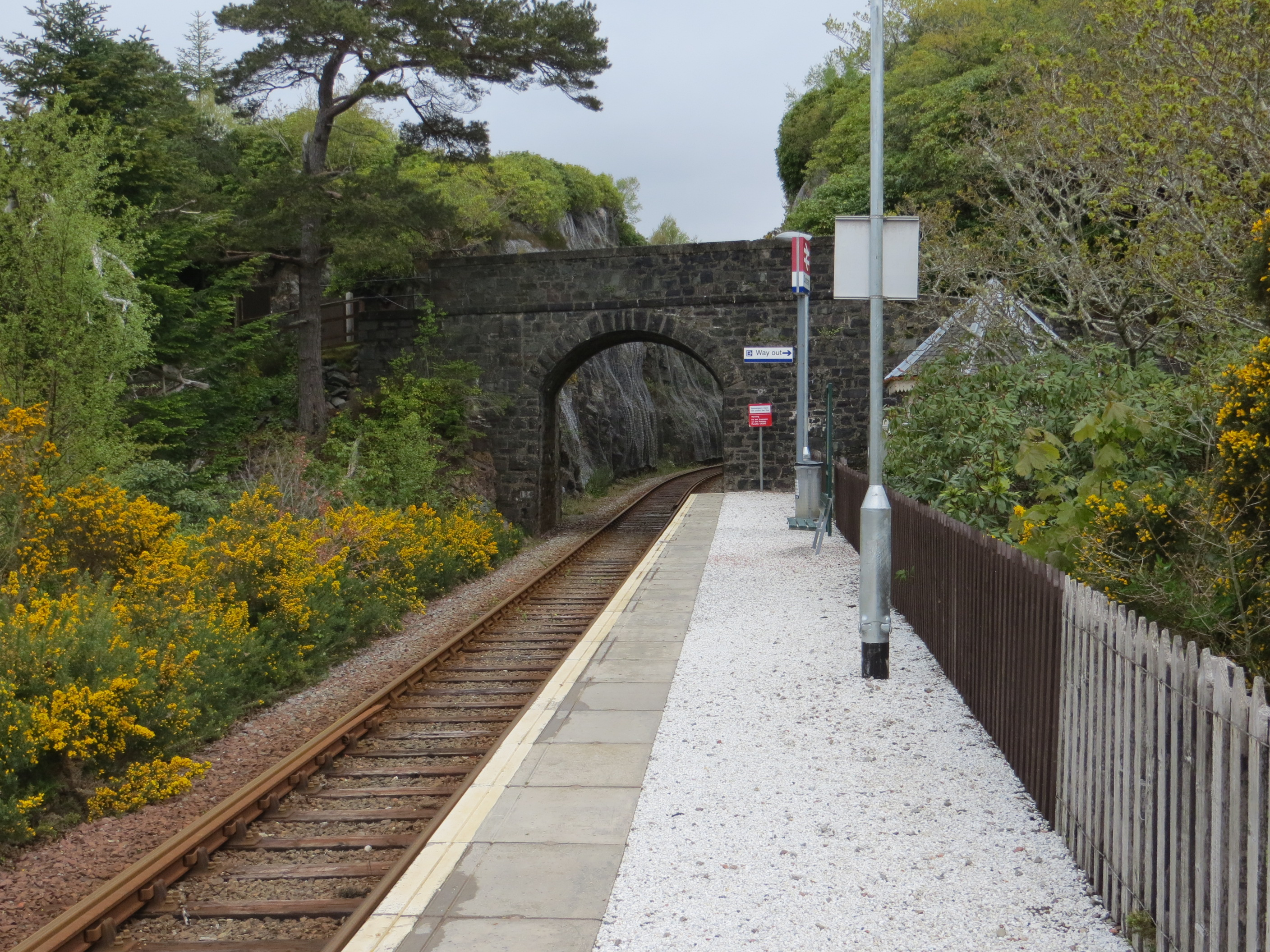 Duncraig station platform, looking east (towards Inverness)